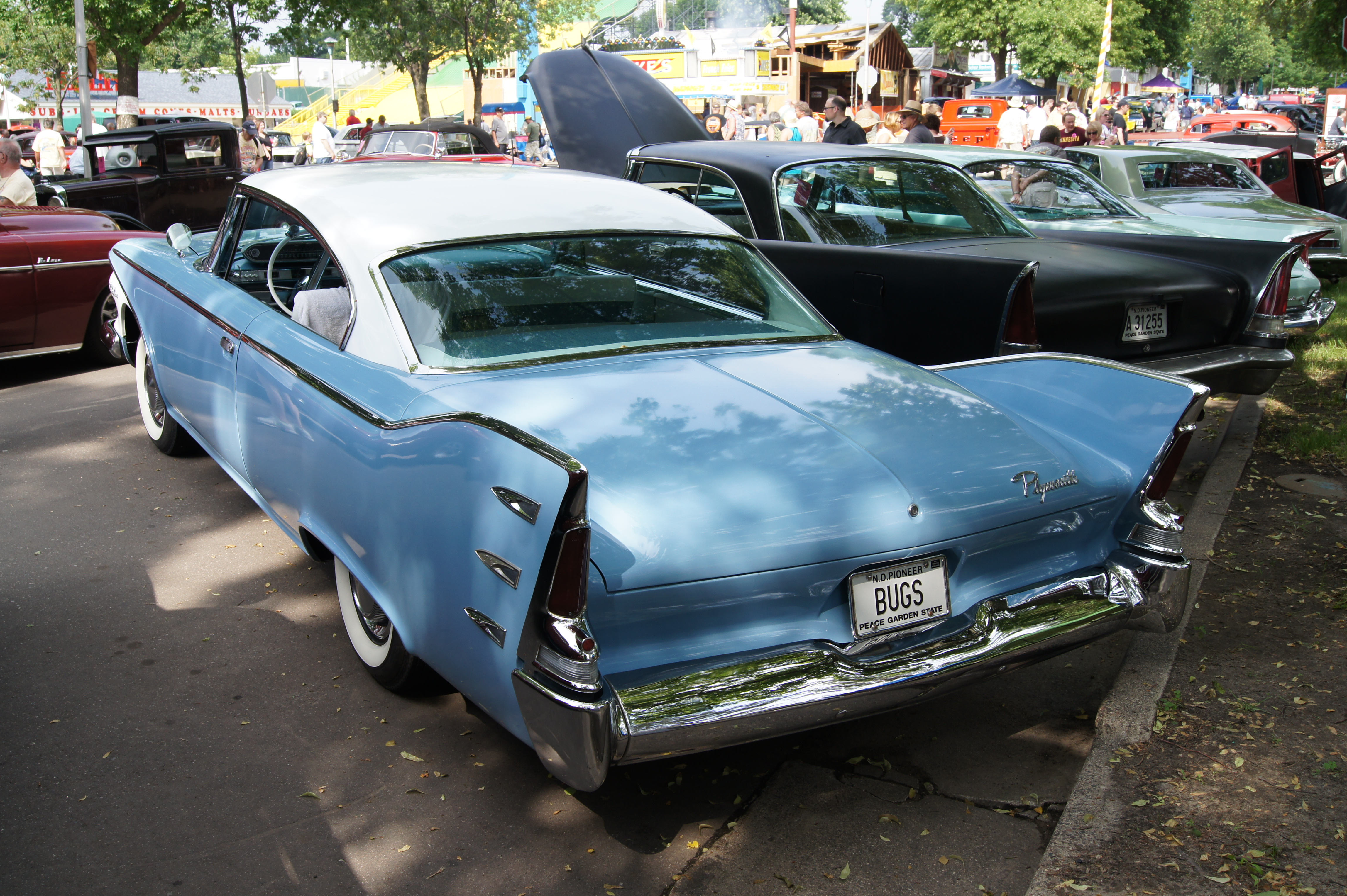 MSRA “BACK TO THE 50′s” 40th ANNIVERSARY June 21-23, 2013 State Fairgrounds St. Paul Minnesota More Car Pictures